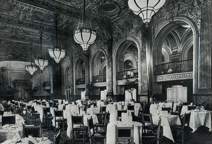 The Grosvenor Room in the Grand Hotel, Birmingham, c1920.